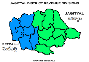 Jagityal District Revenue divisions